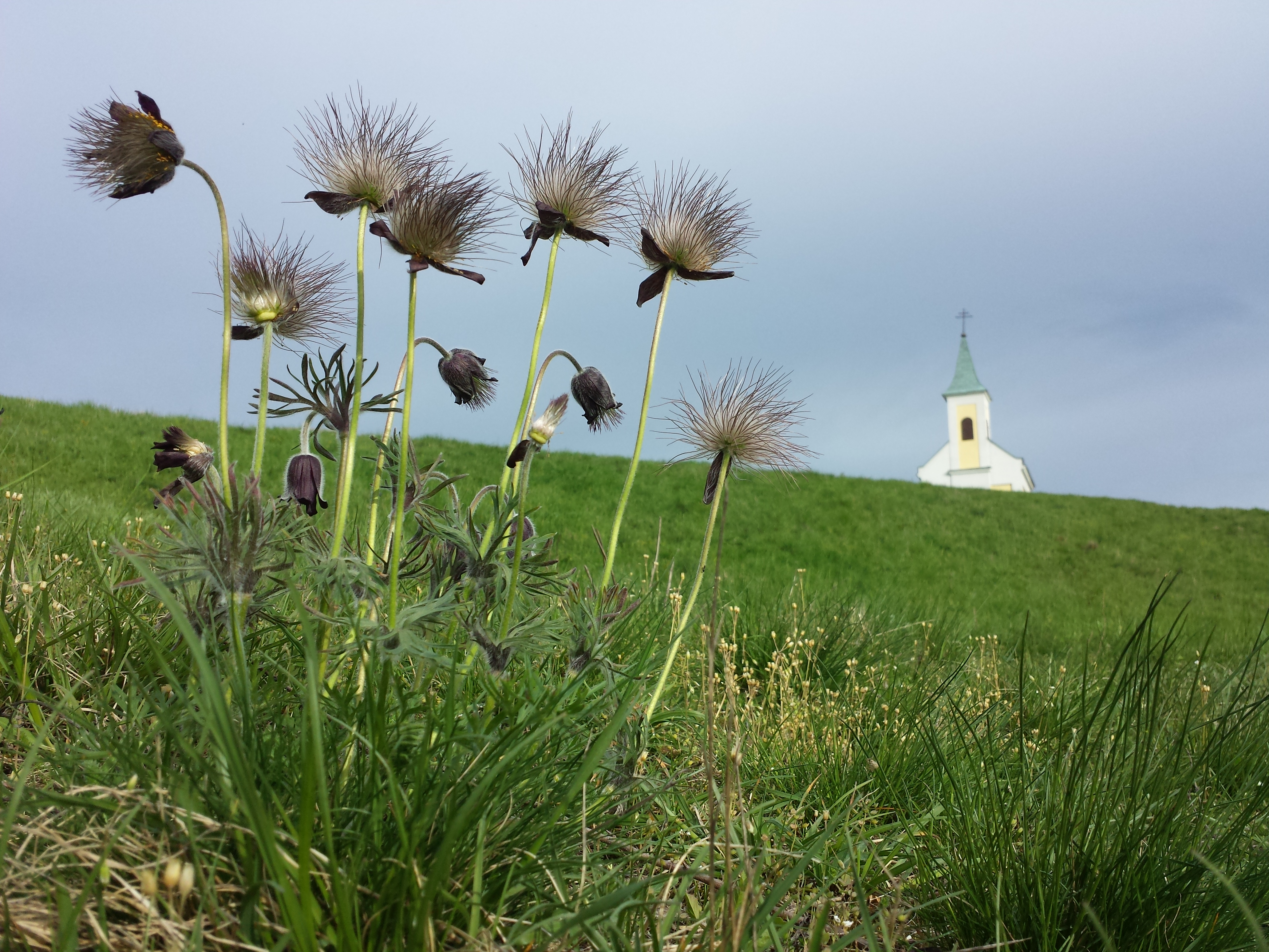 Habitus with fruits Taxonym: Pulsatilla pratensis subsp. nigricansss Fischer et al. EfÖLS 2008 ISBN 978-3-85474-187-9 Location: Michelberg, district Korneuburg, Lower Austria - ca. 409 m a.s.l. Habitat: semi dry grassland